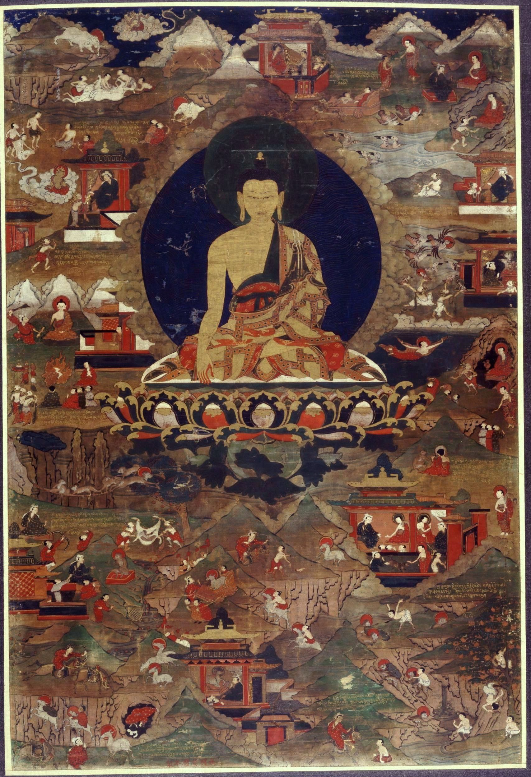 Shakyamuni Buddha with Scenes of His Former Lives. 17th century, British Museum